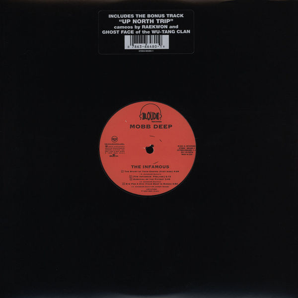 The Infamous LP cover by